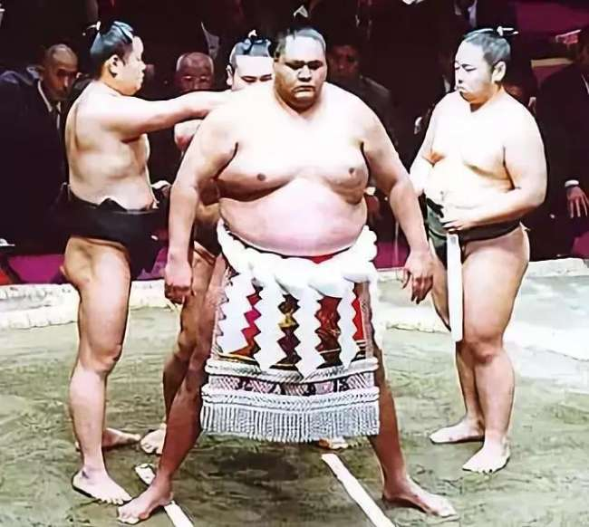 Yokozuna Akebono at his retirement ceremony. Photo by Philbert Ono.